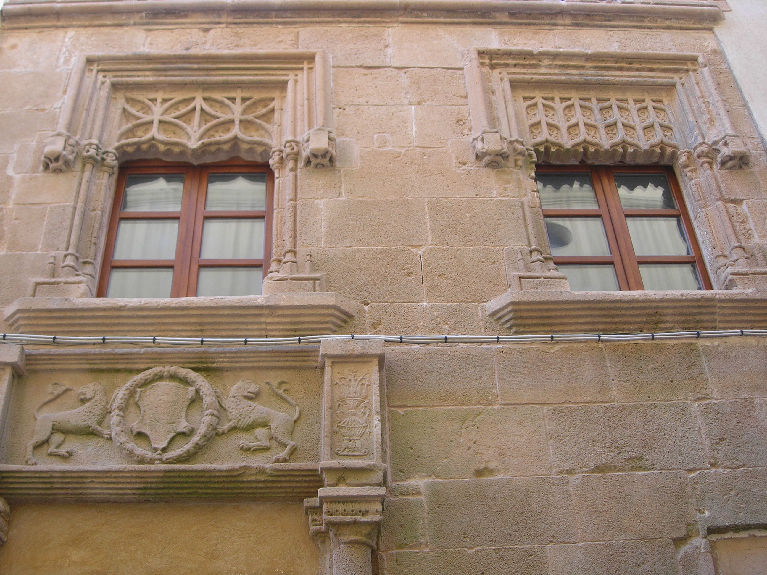 Summary Description